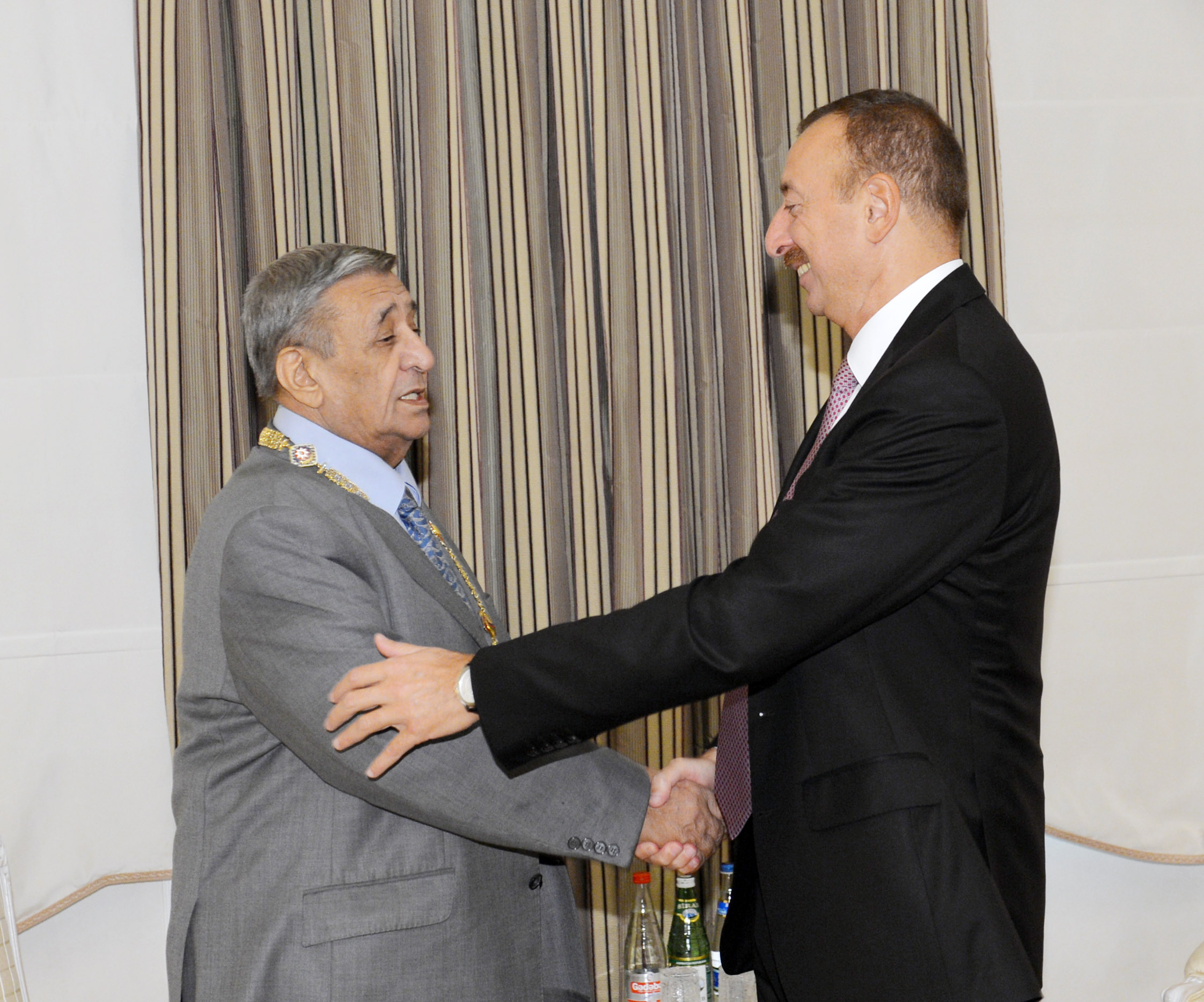 Ilham Aliyev presented the “Heydar Aliyev” order to people’s artist Arif Malikov